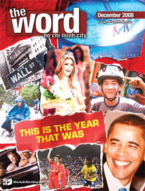 Front cover of The Word Ho Chi Minh City